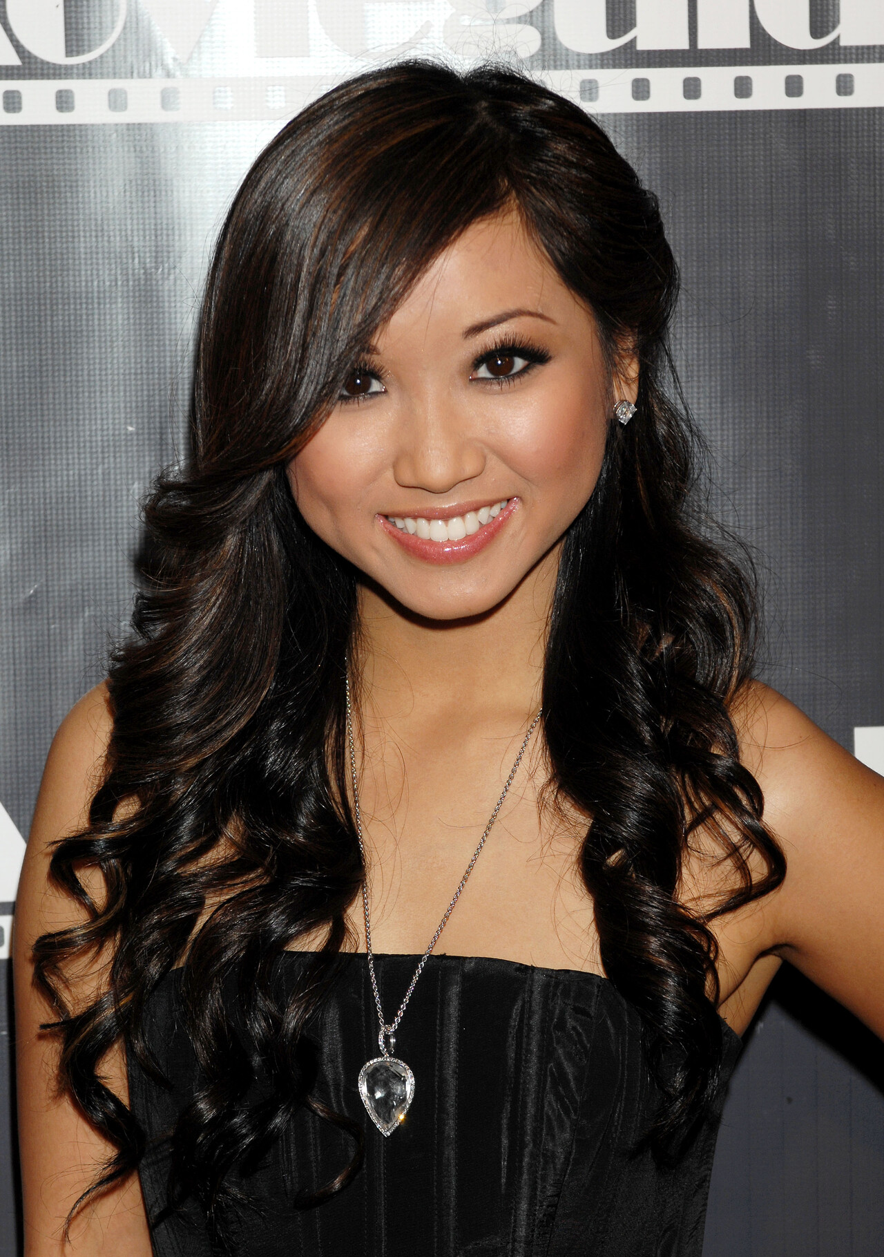 Brenda Song at the Beverly Hilton Hotel 17th annual Annual Movieguide® Awards